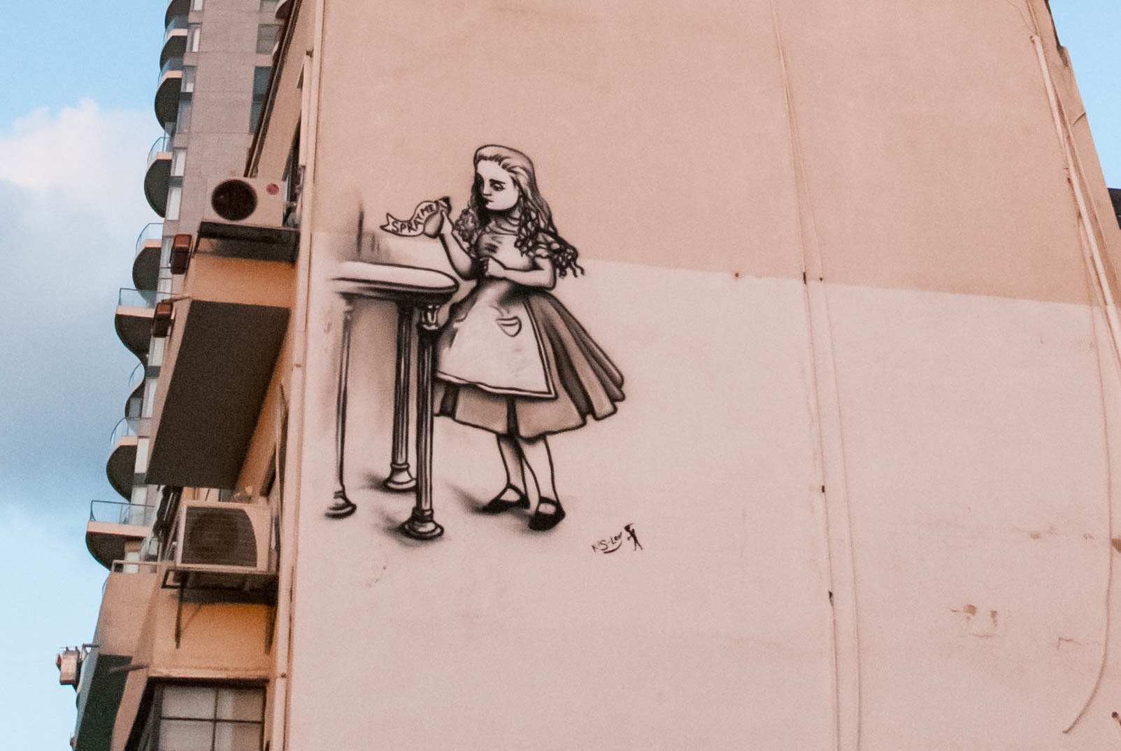 Graffiti Tel Aviv, Simtat Shlush St - close up.